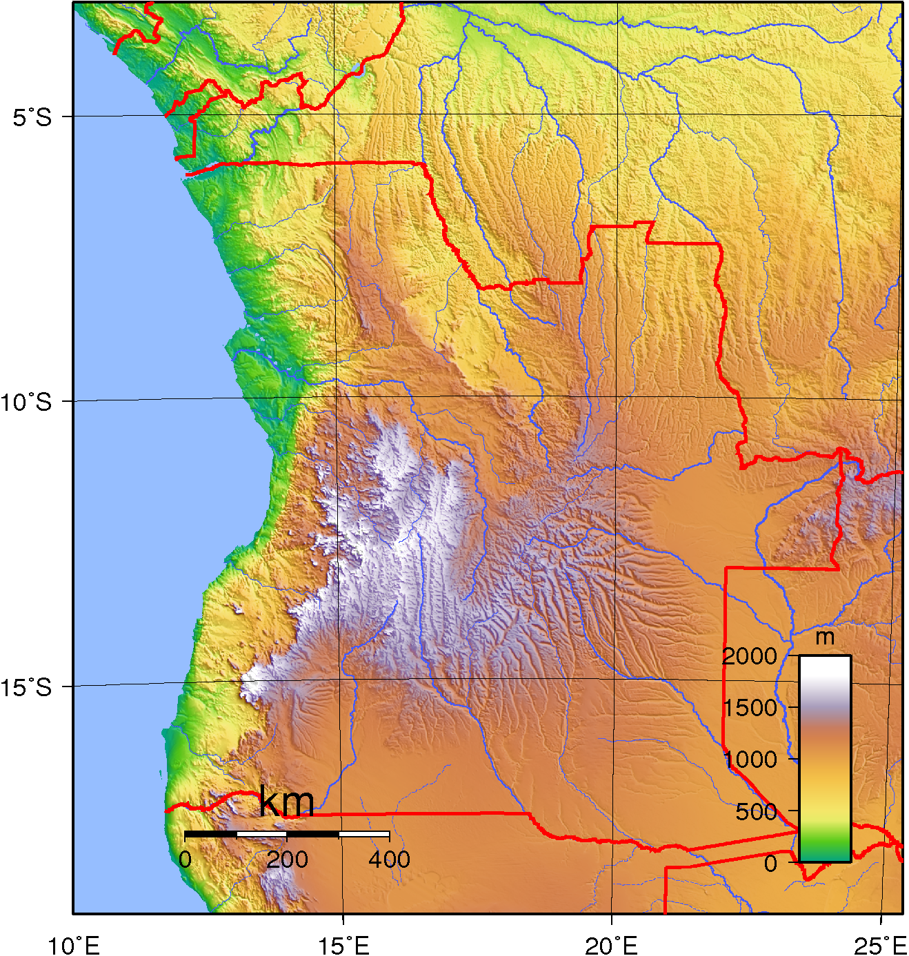 Topographic map of Angola. Created with GMT from public domain GLOBE data.